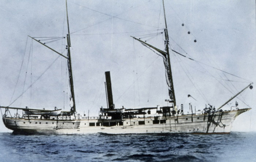 U.S. Coast and Geodetic Survey steamer BLAKE - in service 1874-1905. Note cable leading from bow, ship anchored in 600 fathoms. This vessel pioneered deepsea anchoring under John Elliott Pillsbury. Current surveys in the Windward Passage.